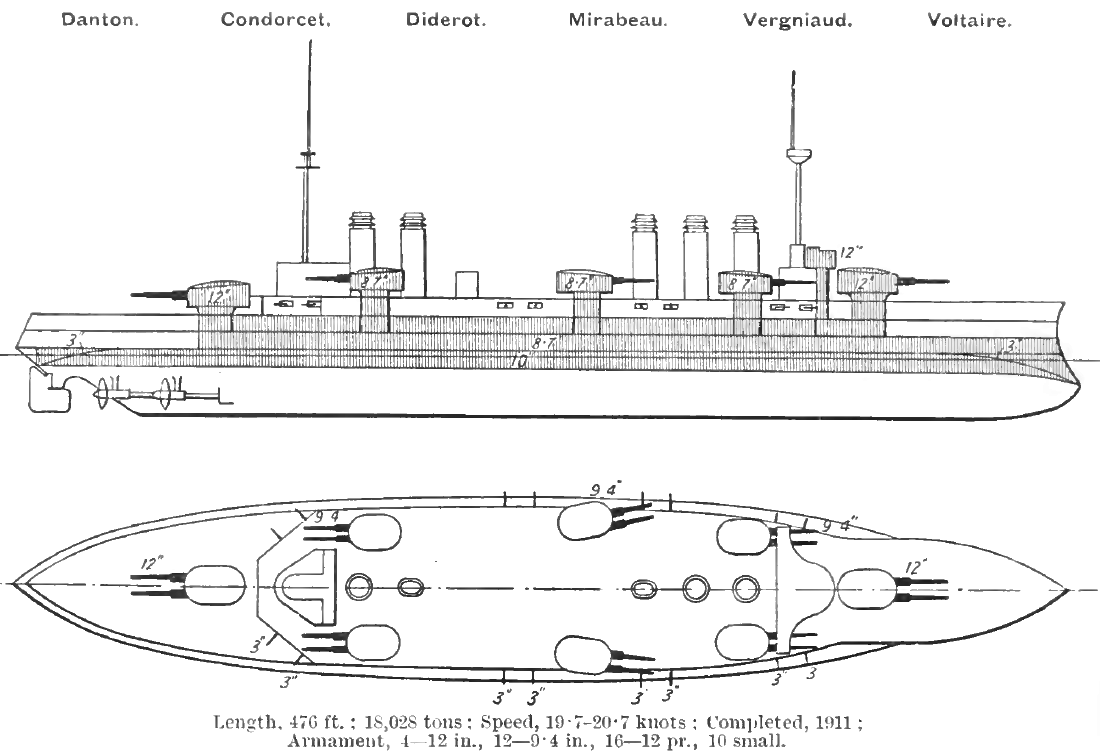 Sketch of the French battleships Danton class.